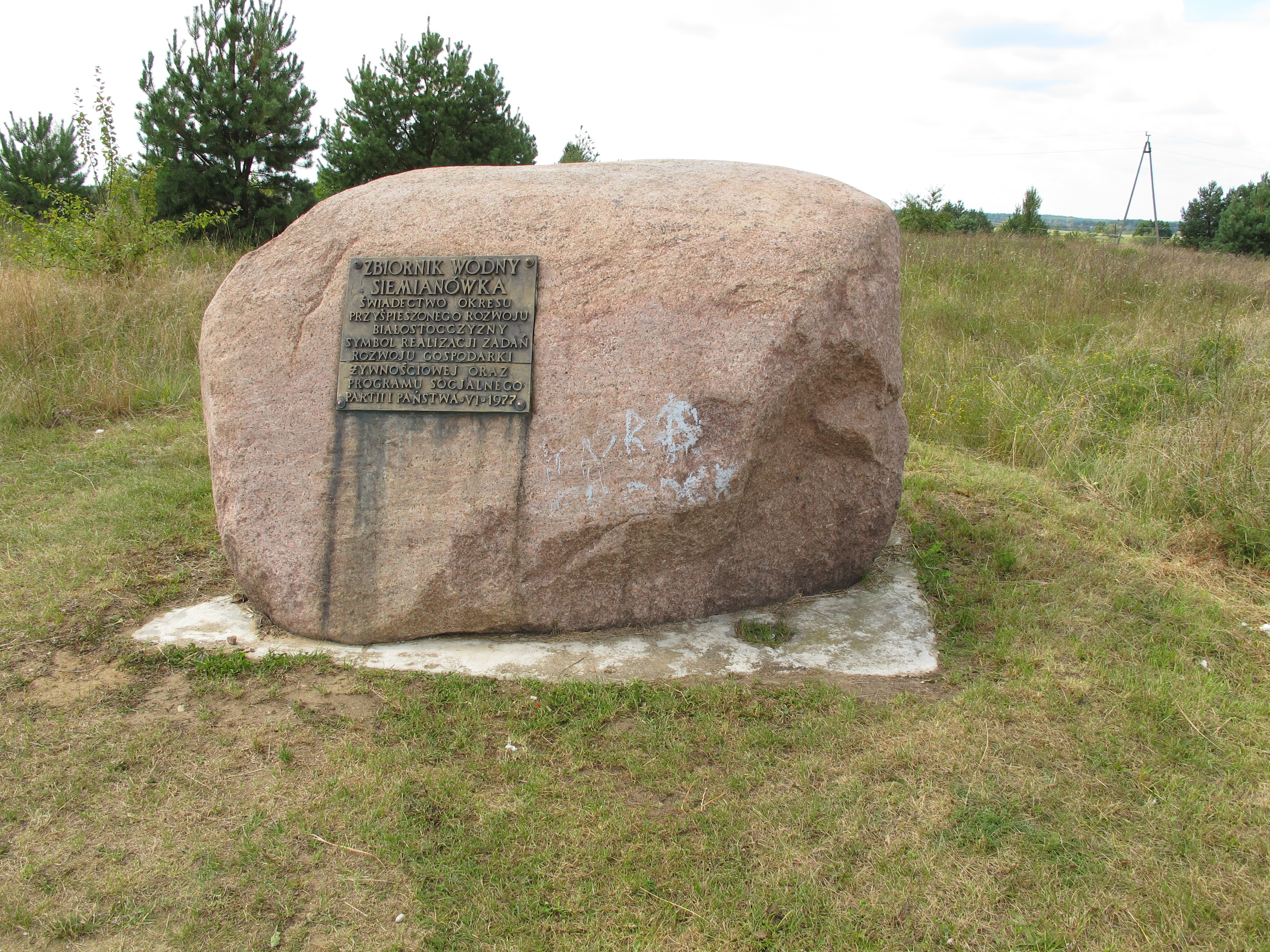 Memorial stone by the road along Siemianówka reservoir near Bondary village, gmina Michałowo, podlaskie,Poland